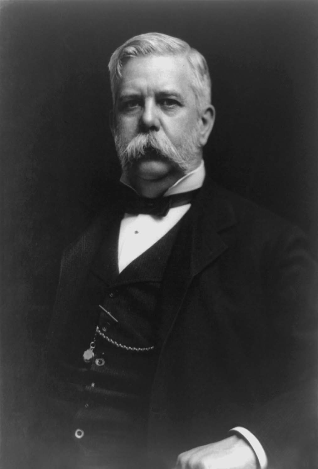 George Westinghouse (October 6, 1846 – March 12, 1914) - American entrepreneur and engineer based in Pennsylvania. Library of Congress description: "George Westinghouse, half-length portrait, facing front" with given dates between 1900 and 1914 (possibly 1906[1]).